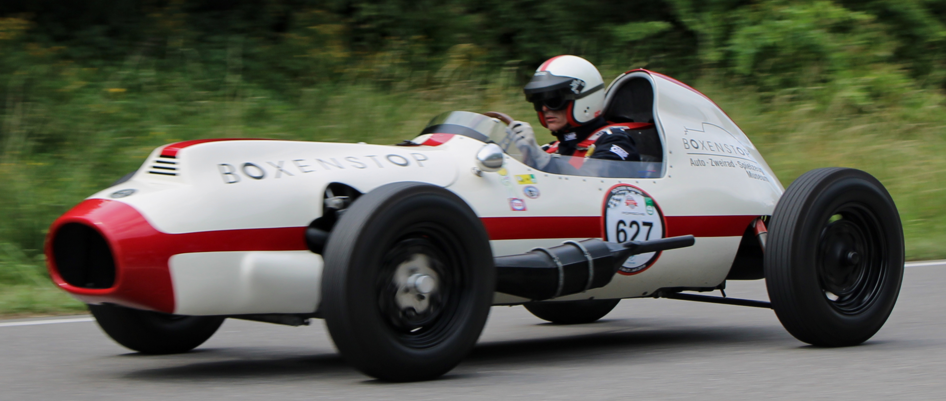 Mitter-DKW Formel Junior at Solitude Revival 2019